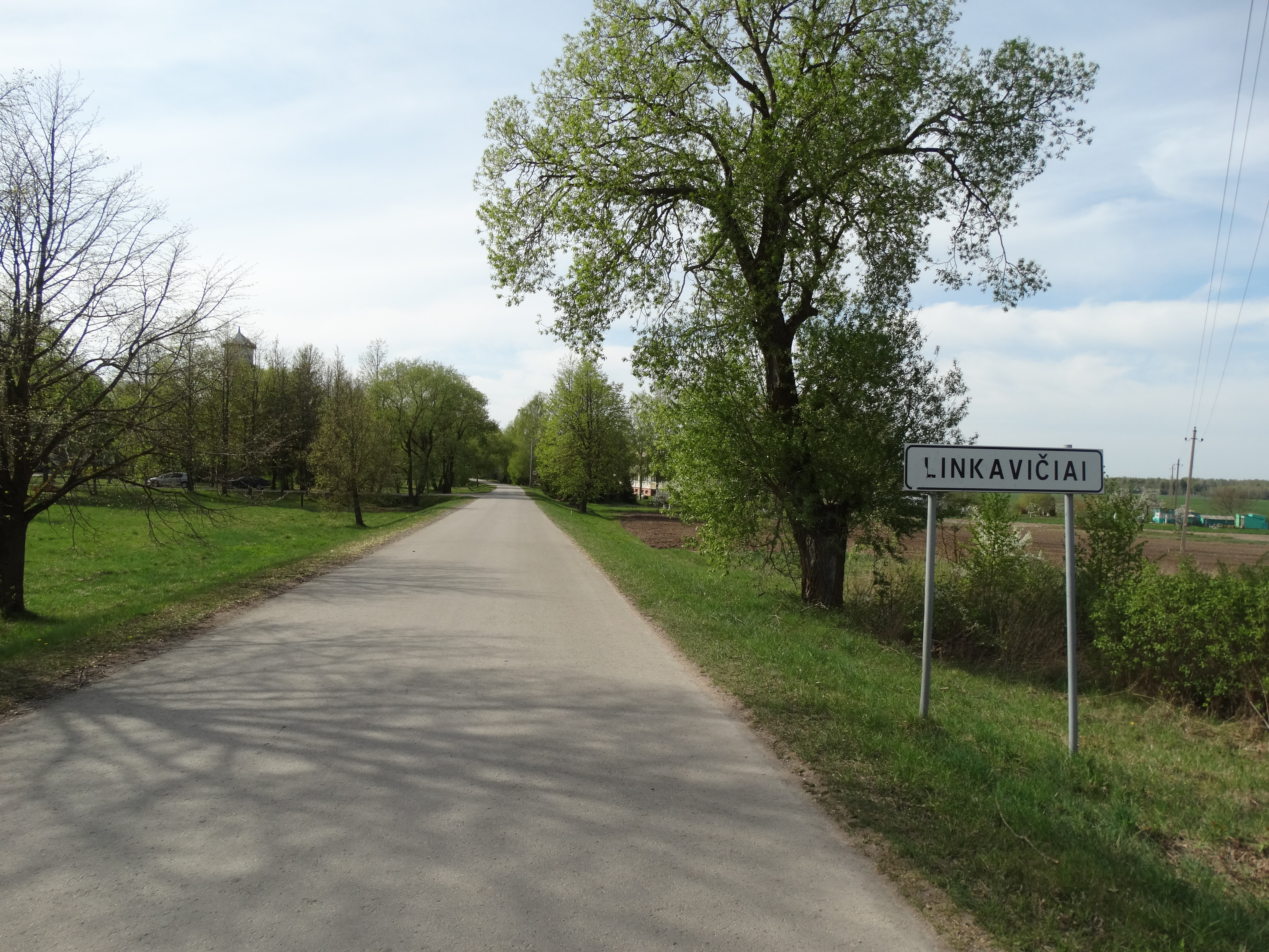 Linkavičiai, Pakruojis District, Lithuania